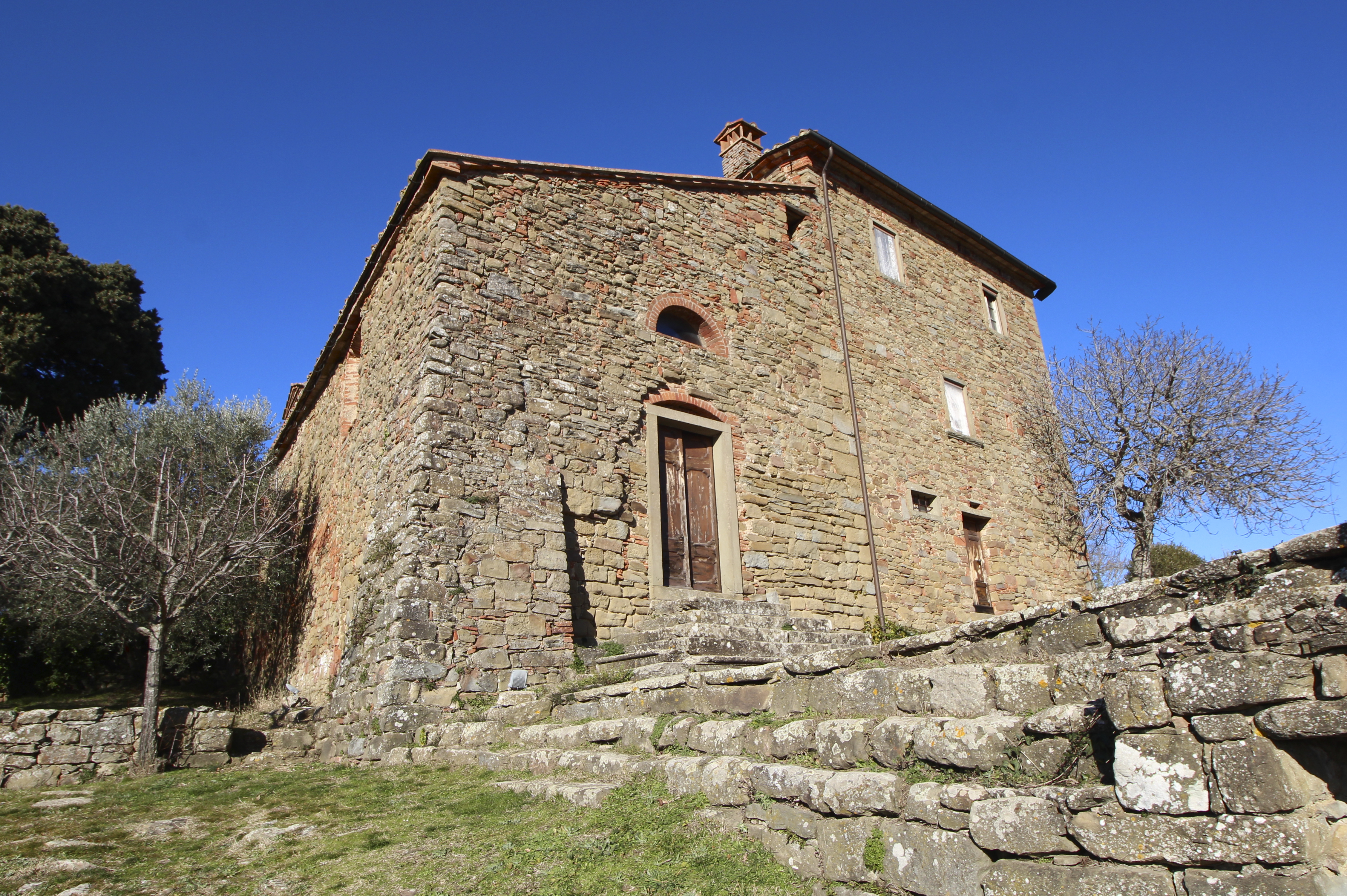 Church San Tommaso, Sogna, hamlet of Bucine, Province of Arezzo, Tuscany, Italy